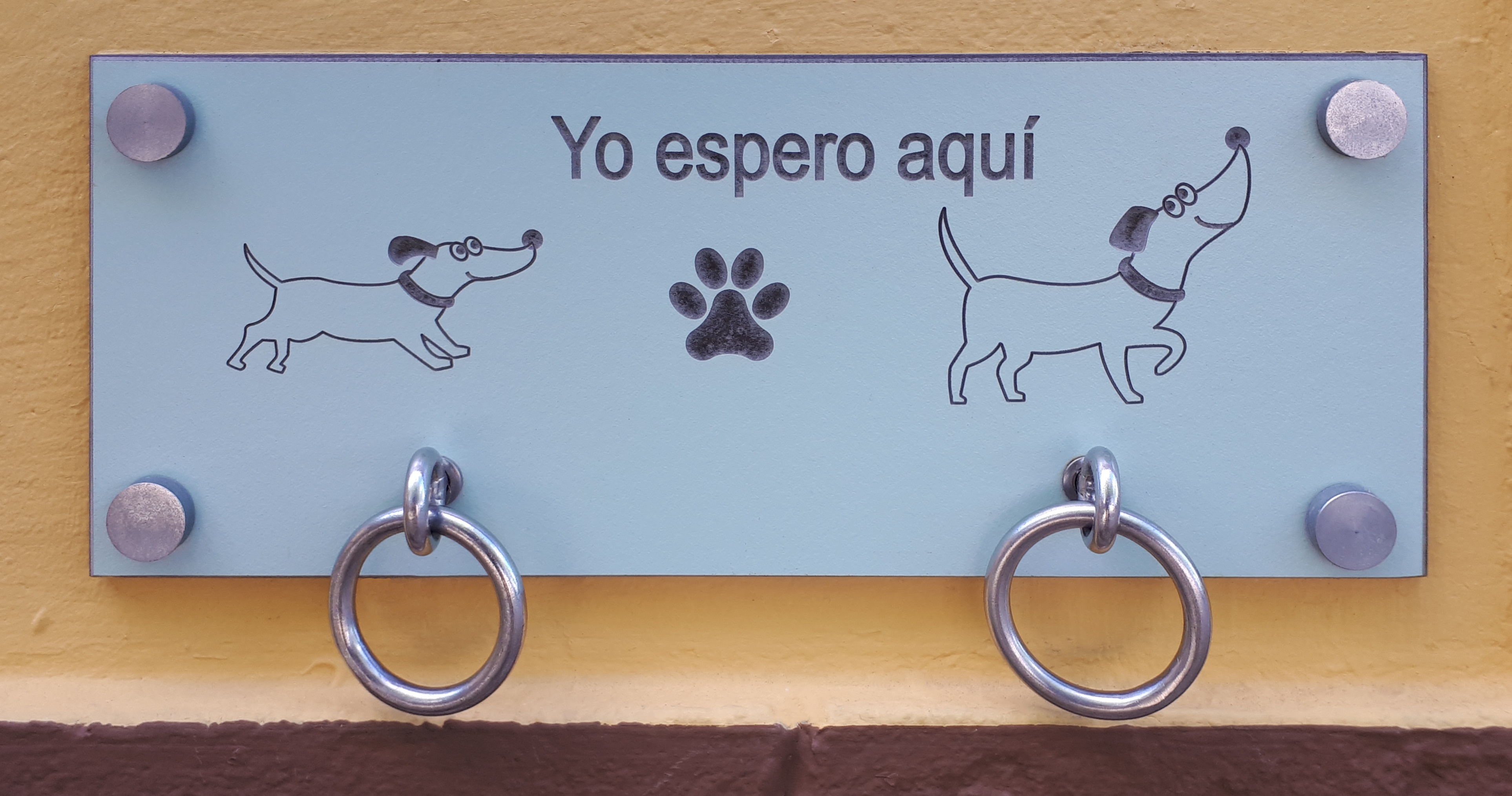 A parking sign for dogs. Sign "Yo espero aquí" (You can tie your dog here).